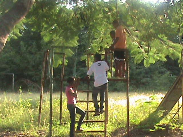 niños jugando